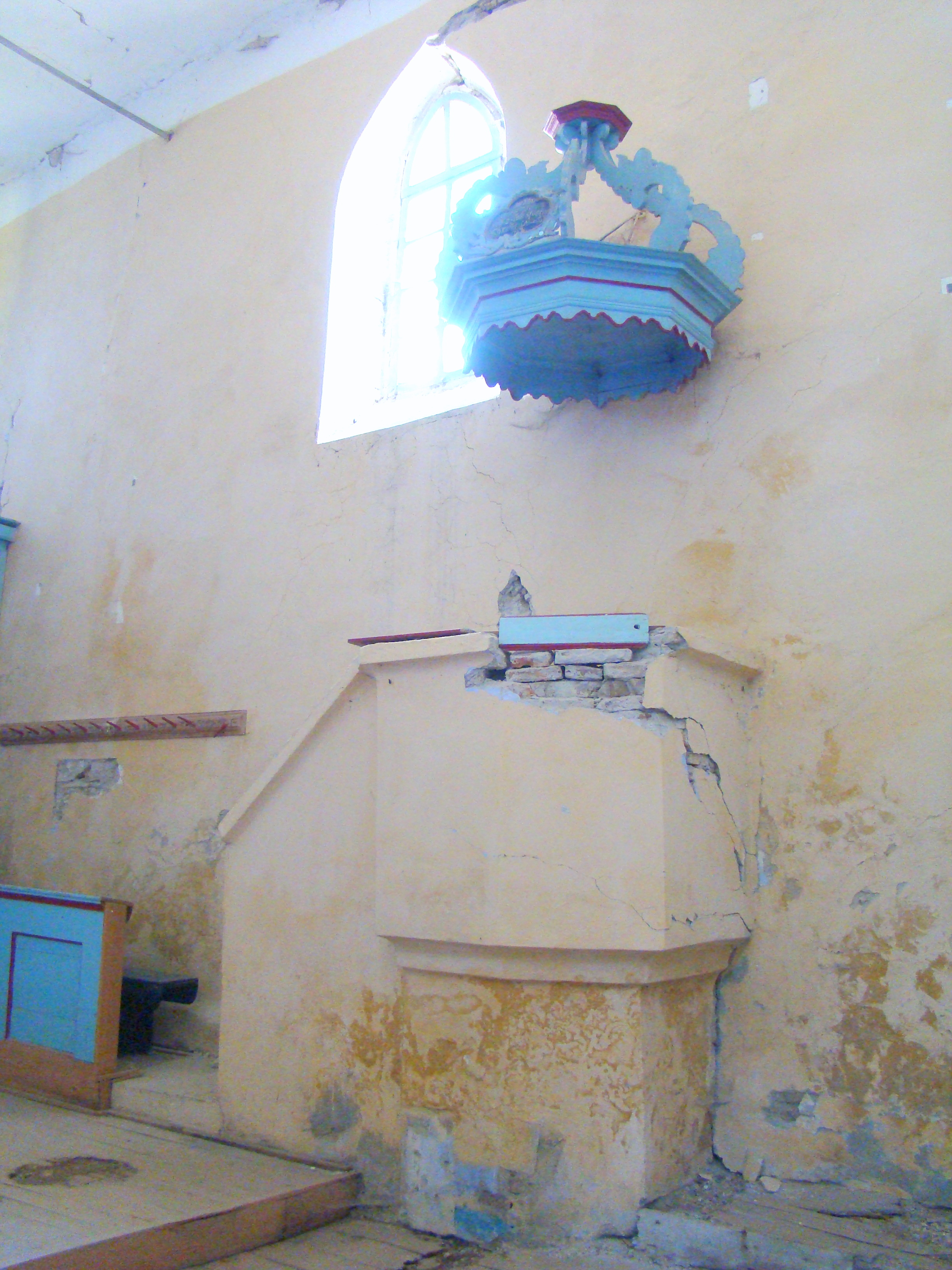 Lutheran church in Hetiur, Mureș County, Romania